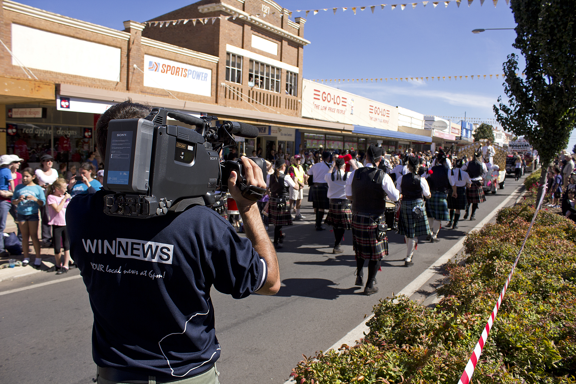 WIN News cameraman filming at the SunRice Festival parade in Pine Ave, Leeton, New South Wales.